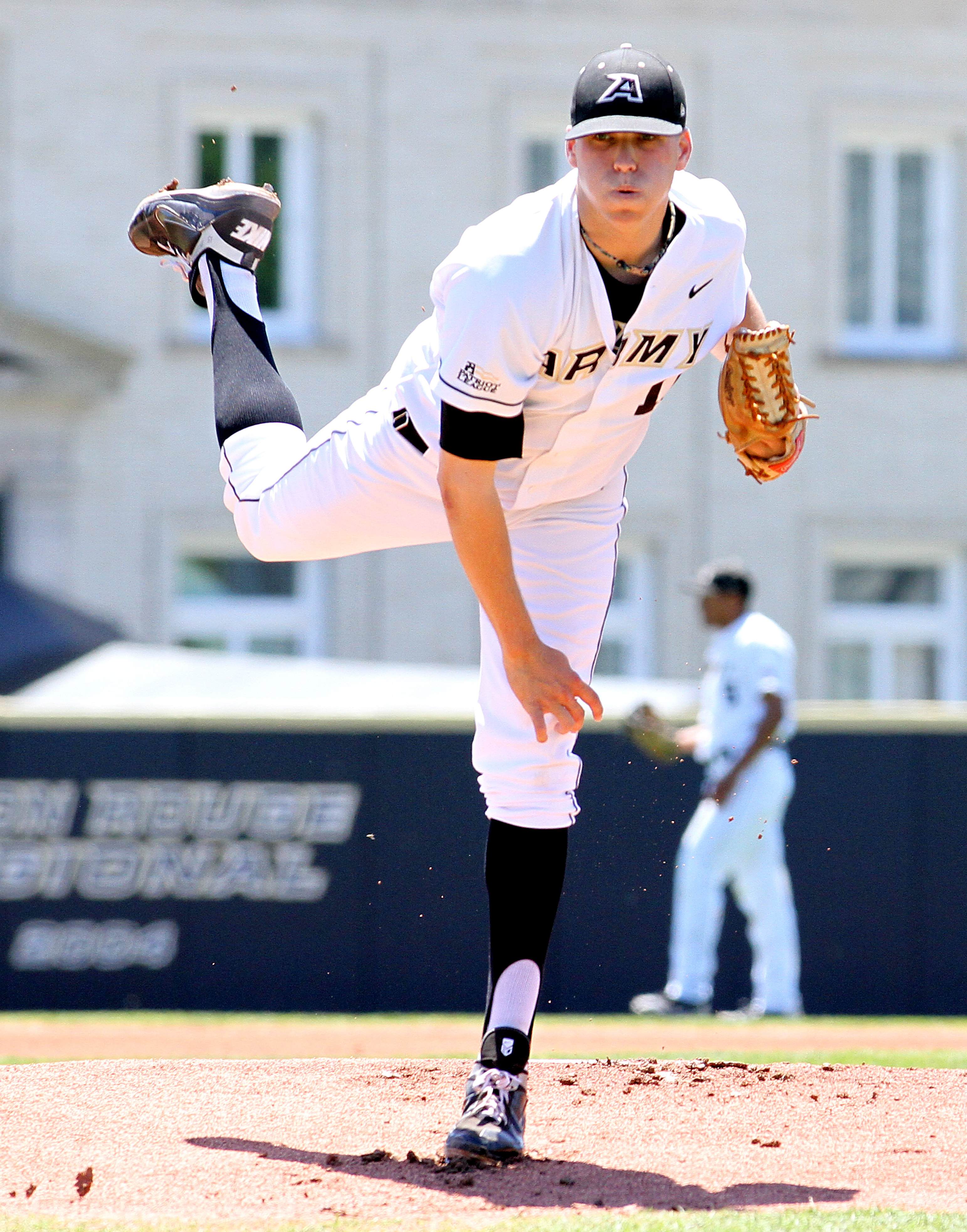 NCAA Baseball-For the second year in a row, and the third time in four seasons, the Army baseball team is headed back to the Patriot League Championship Series. The top-seeded Black Knights reached the conference finals by sweeping aside fourth-seeded Lafayette in a semifinal series played under absolutely beautiful conditions on Saturday afternoon at Doubleday Field. Army (39-12) overcame a six-run deficit en route to an 8-7 victory in the opening game, and the Black Knights held off the Leopards (14-37-1) in taking a 6-3 decision in the nightcap. Army advances to the PLCS, where the Black Knights will face second-seeded Holy Cross in a best-of-three series next weekend at West Point. The Crusaders swept third-seeded Navy on Saturday, taking a 1-0 decision in the opener and securing a 4-2 win in 10 innings in the nightcap. The dates for next weekend's Patriot League Championship Series are still to be determined. Photo by Tommy Gilligan/USMA Public Affairs.